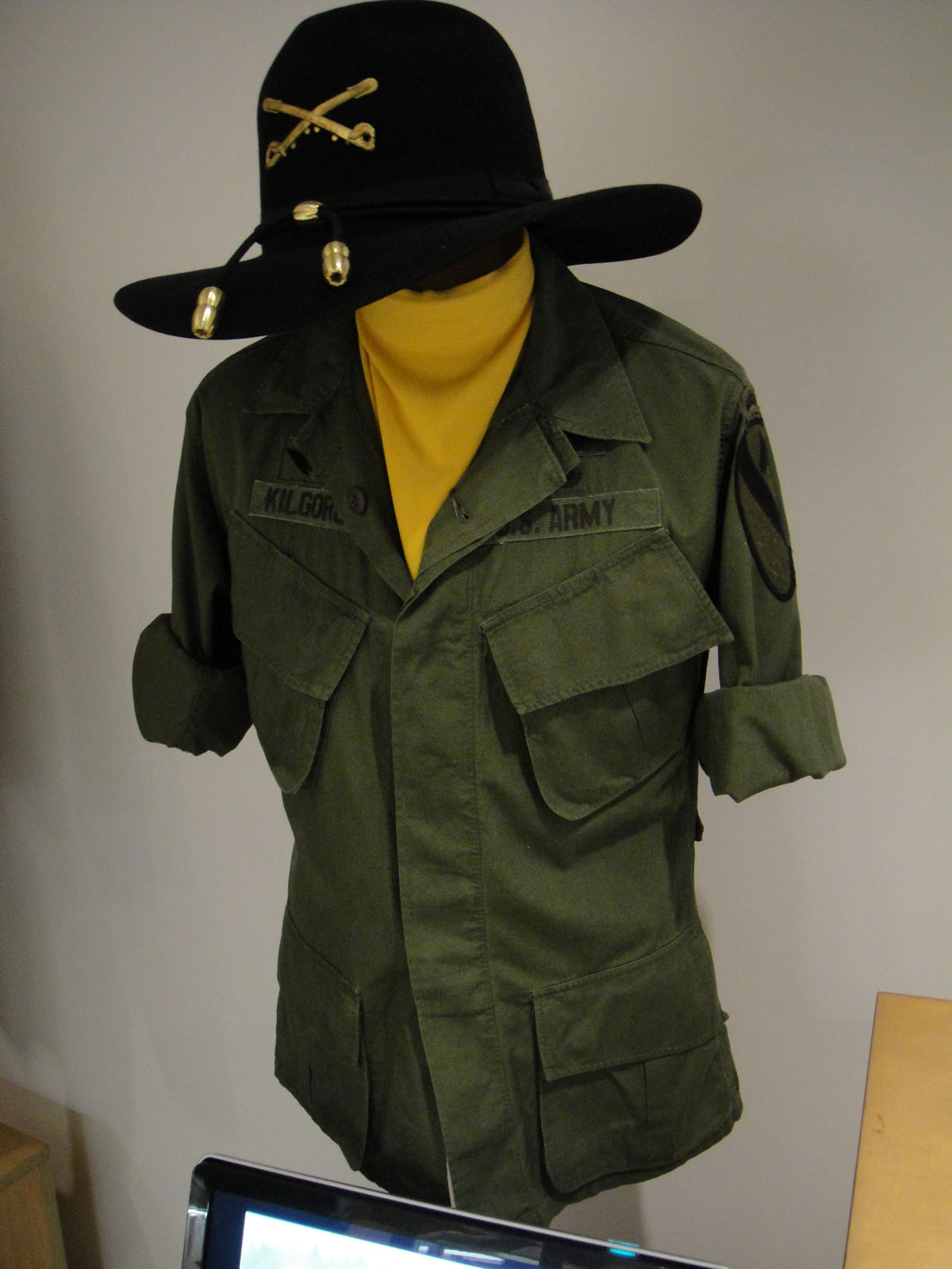 Robert Duvall "Lieutenant Colonel Bill Kilgore" tropical combat coat and signature yellow ascot tie from "Apocalypse Now" at the Debbie Reynolds Auction Breaks Up Historic Hollywood Collection (The Paley Center for Media in Beverly Hills, Los Angeles, CA, USA).